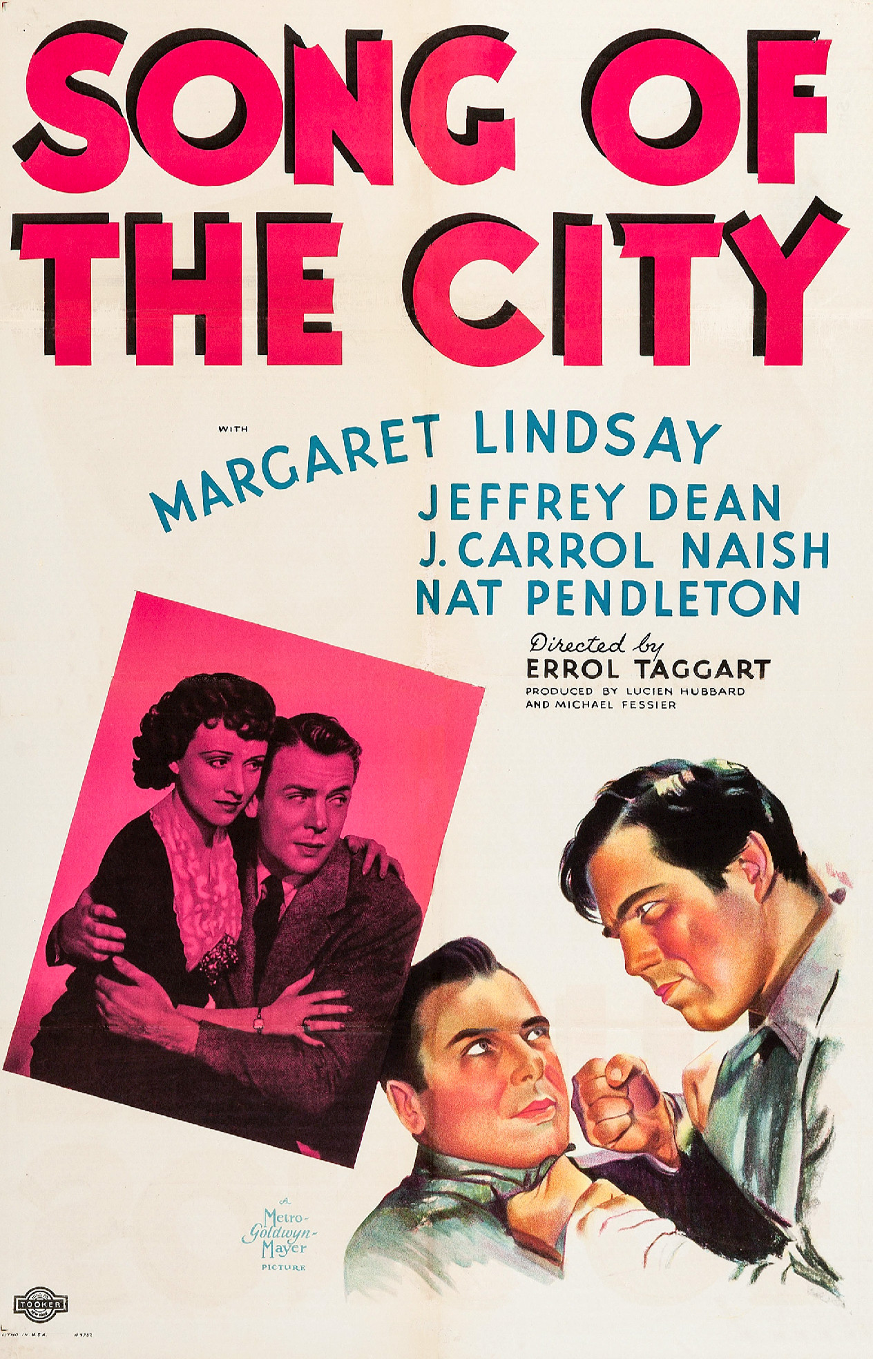 Poster for the 1937 filmSong of the City.